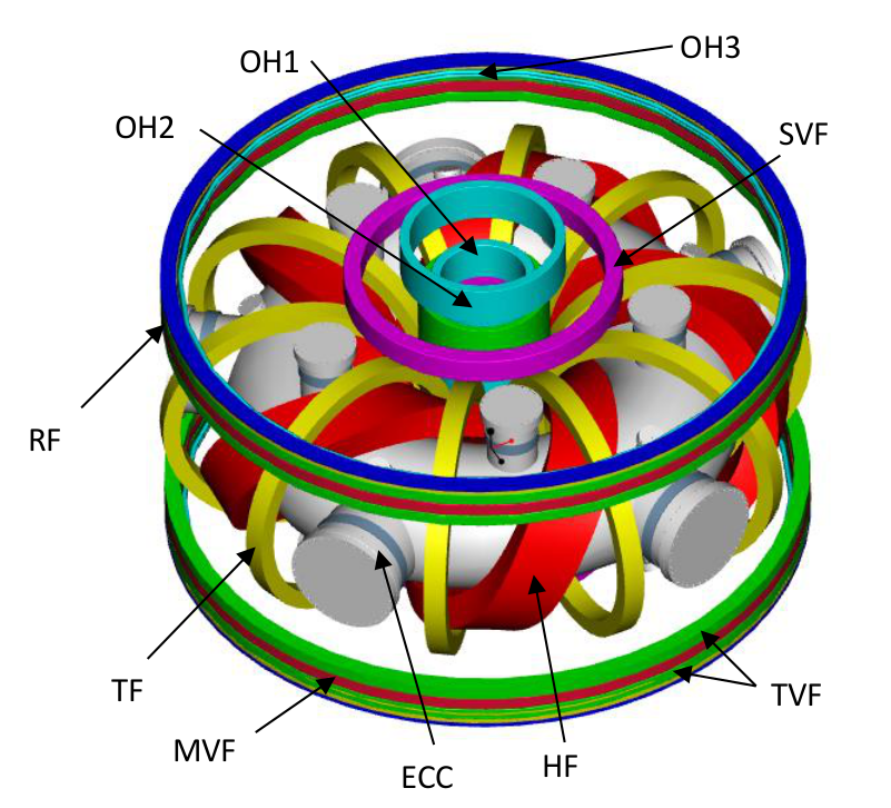 A drawing of the CTH system showing the vacuum vessel and magnet coils